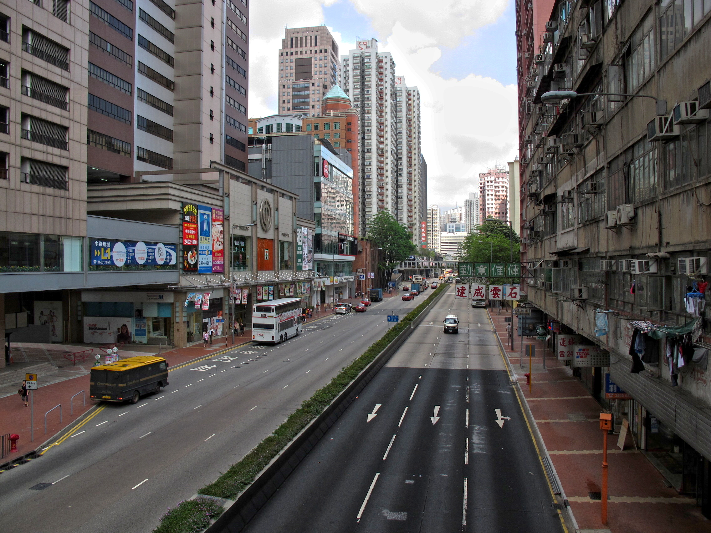 Castle Peak Road Tsuen Wan Section 青山公路－荃灣段